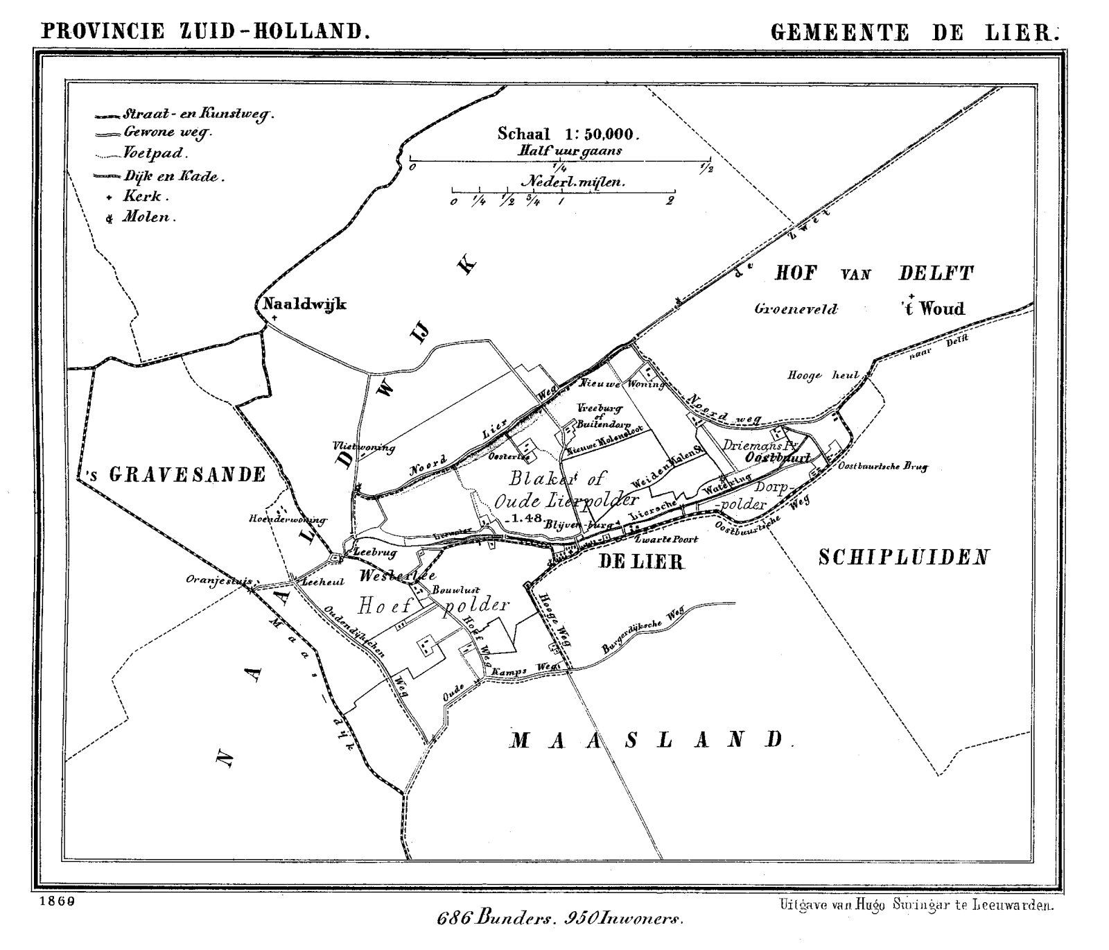 Historic map of De Lier (now part of municipality Westland), South Holland, the Netherlands